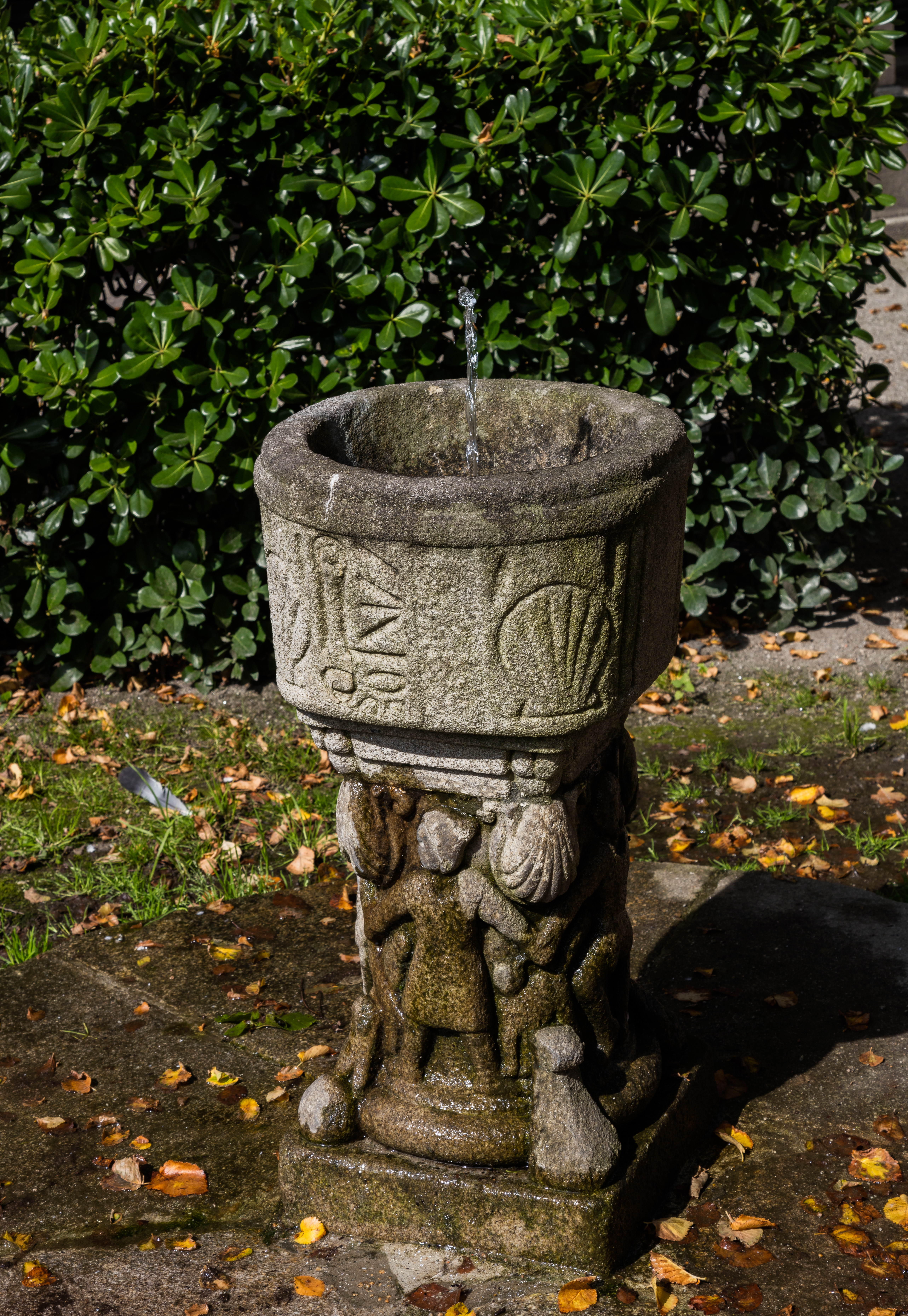 St Carlos Garden, La Coruña, Spain